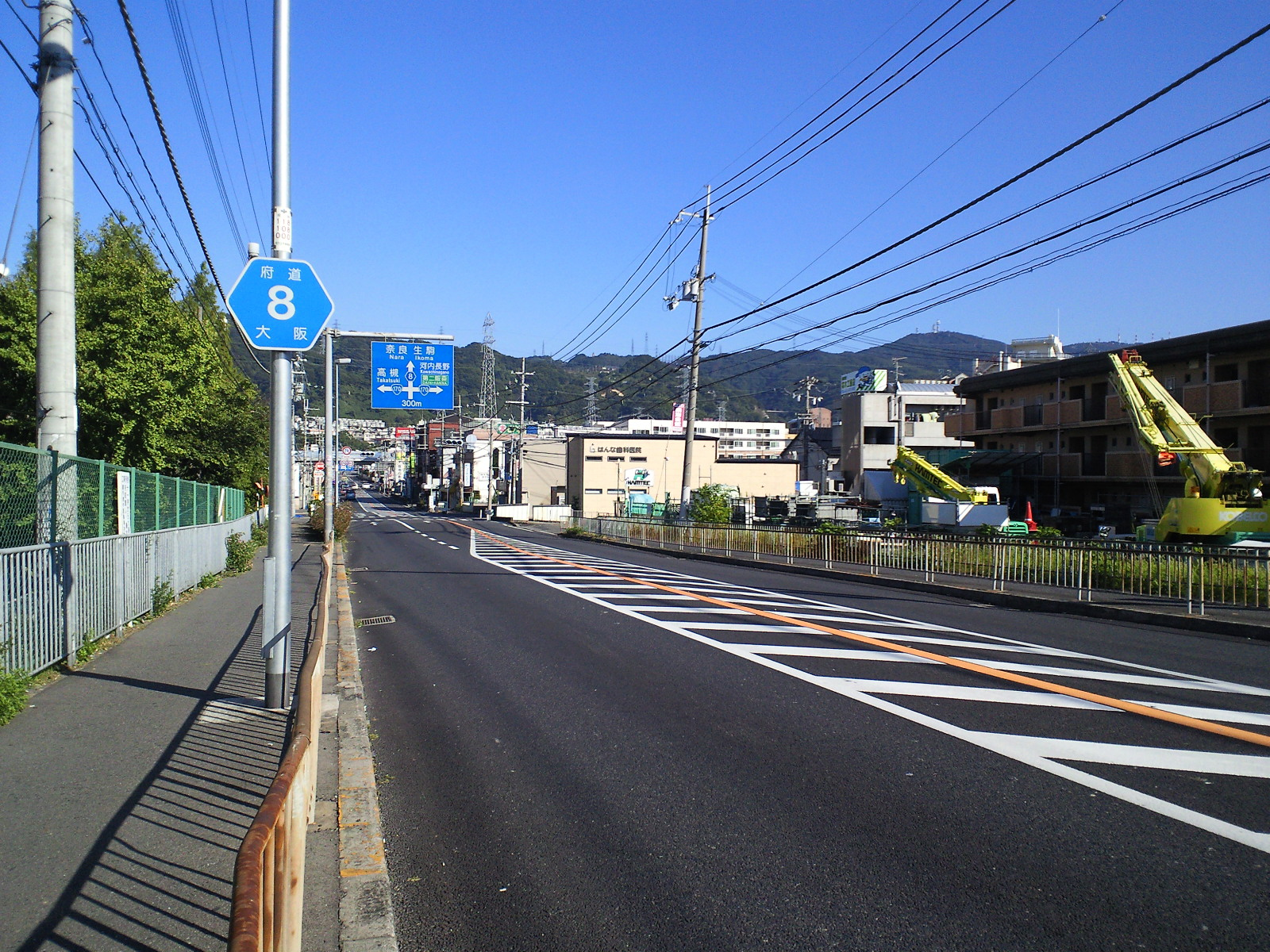 Osaka prefectural road No.08 , Daito, Osaka